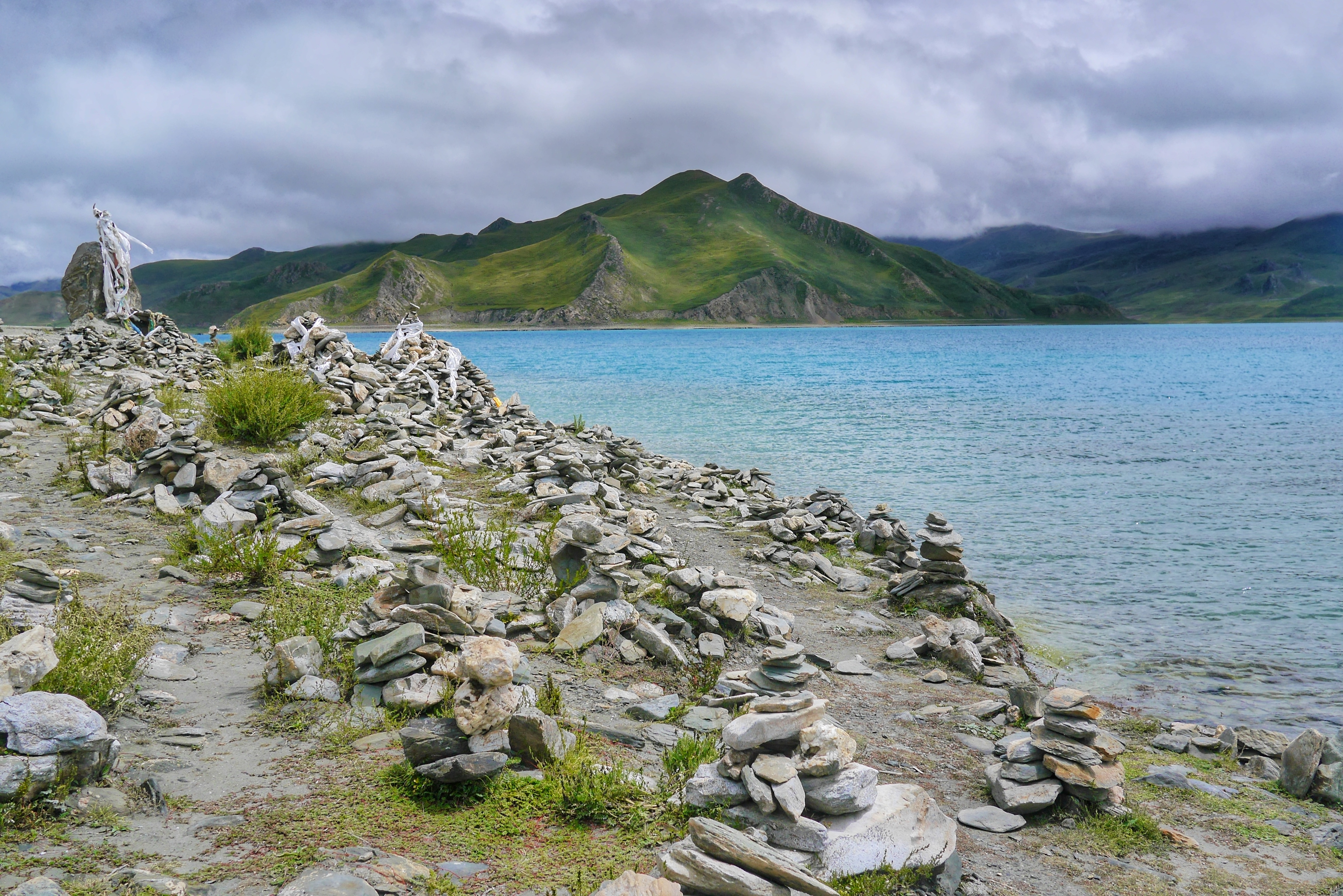 Yamdrok Lake (Yamdrok Yutso in Tibetan dialect) is one of the holy or sacred lakes in Tibet. Yamdrok Yutso is purely in turquoise color as the Yutso means “turquoise" in Tibetan language and the lake was named after that. It can be viewed from the top of the Khambala (pass) on an altitude of 4770m above sea-level.